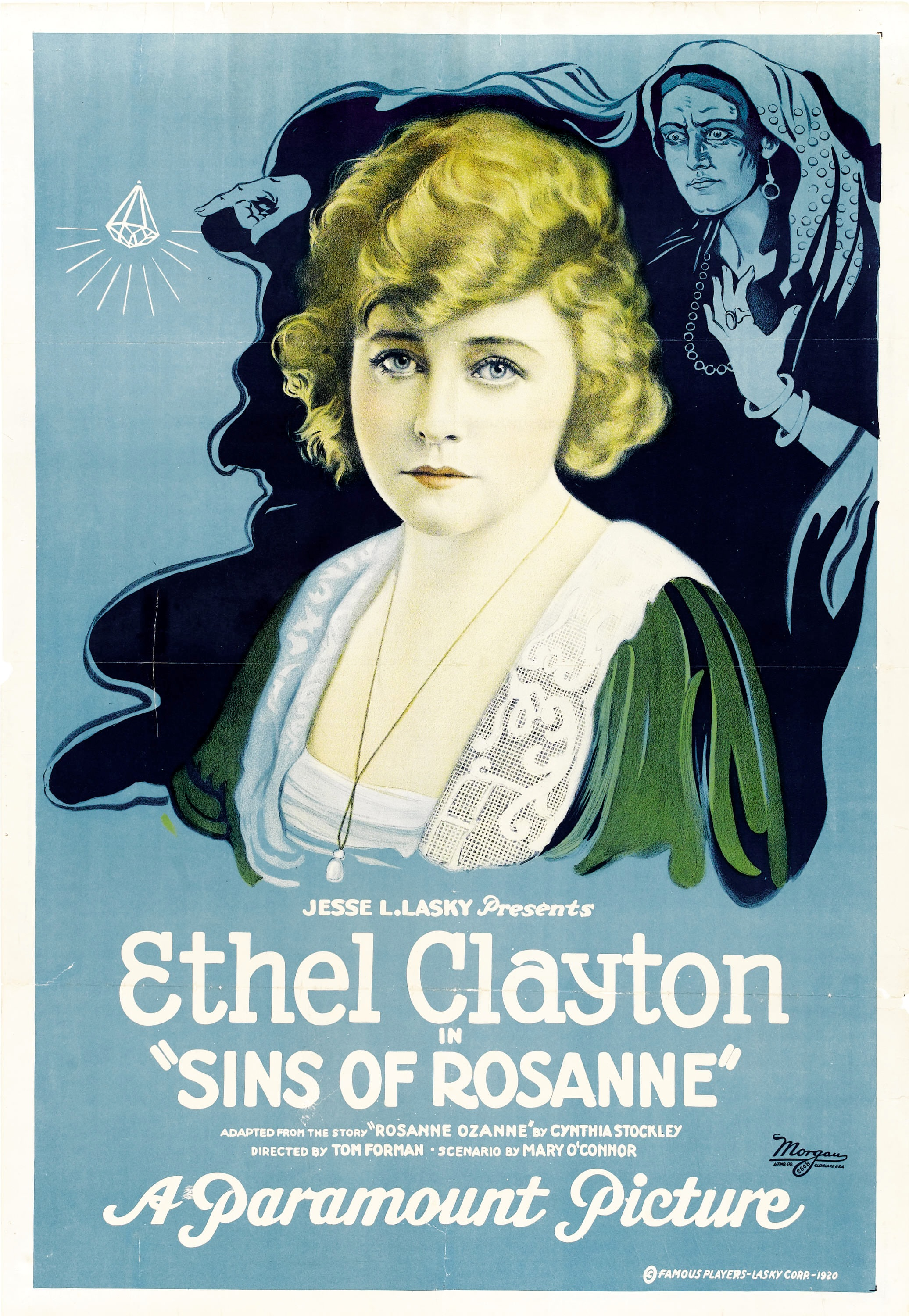 Movie poster for the American silent film The Sins of Rosanne with Ethel Clayton.